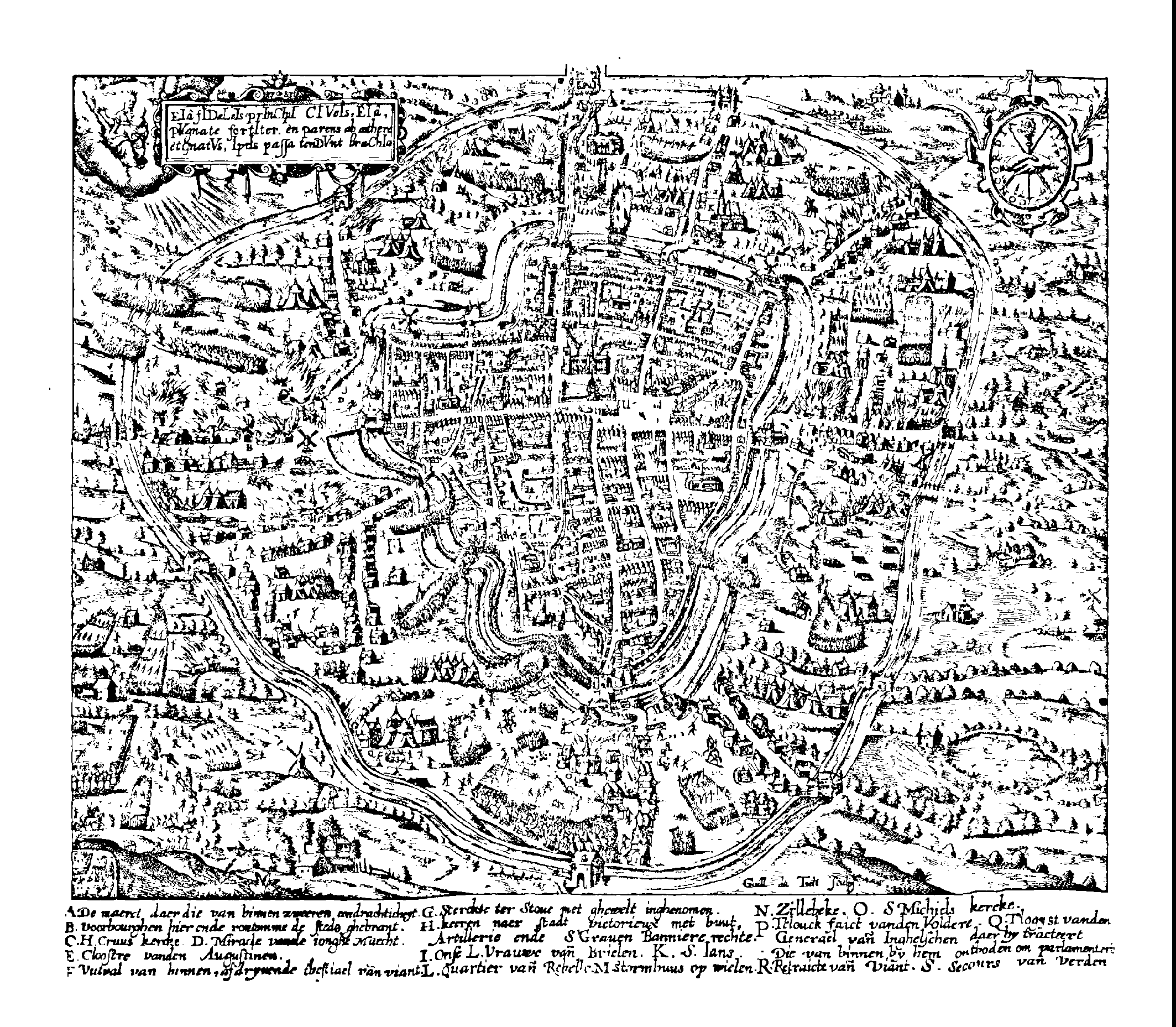 Transferd from enWiki original file File:The siege of Ypres (1383).pdf; Original description: Vandenpeereboom, Alphonse. 'Ypriana, notices, études, notes et documents sur Ypres'. [vol.5], Tuindag et Notre-Dame de Tuine - . Bruges : Aimé de Zuttere, 1881.